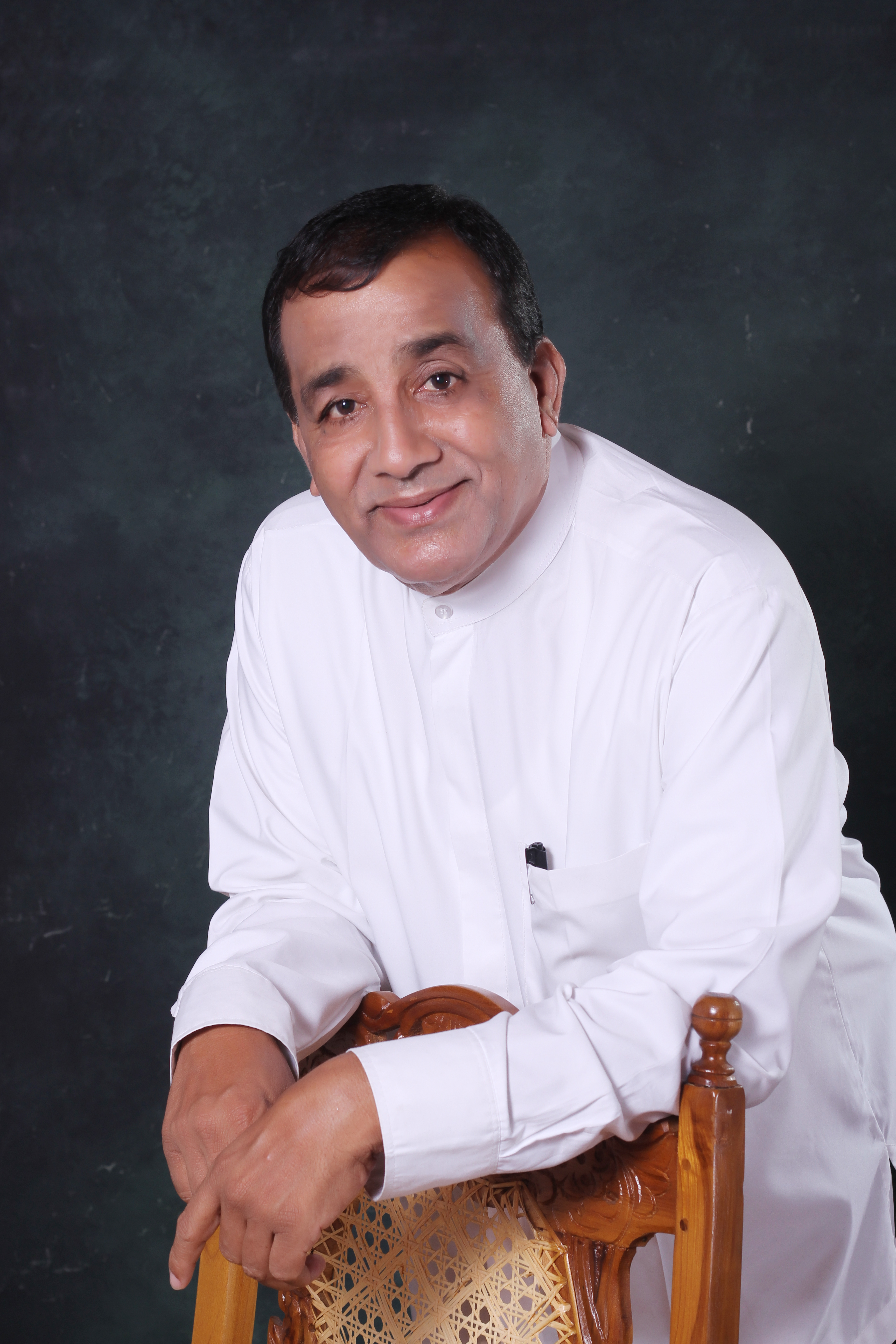 Lucky jayawardana unp mp